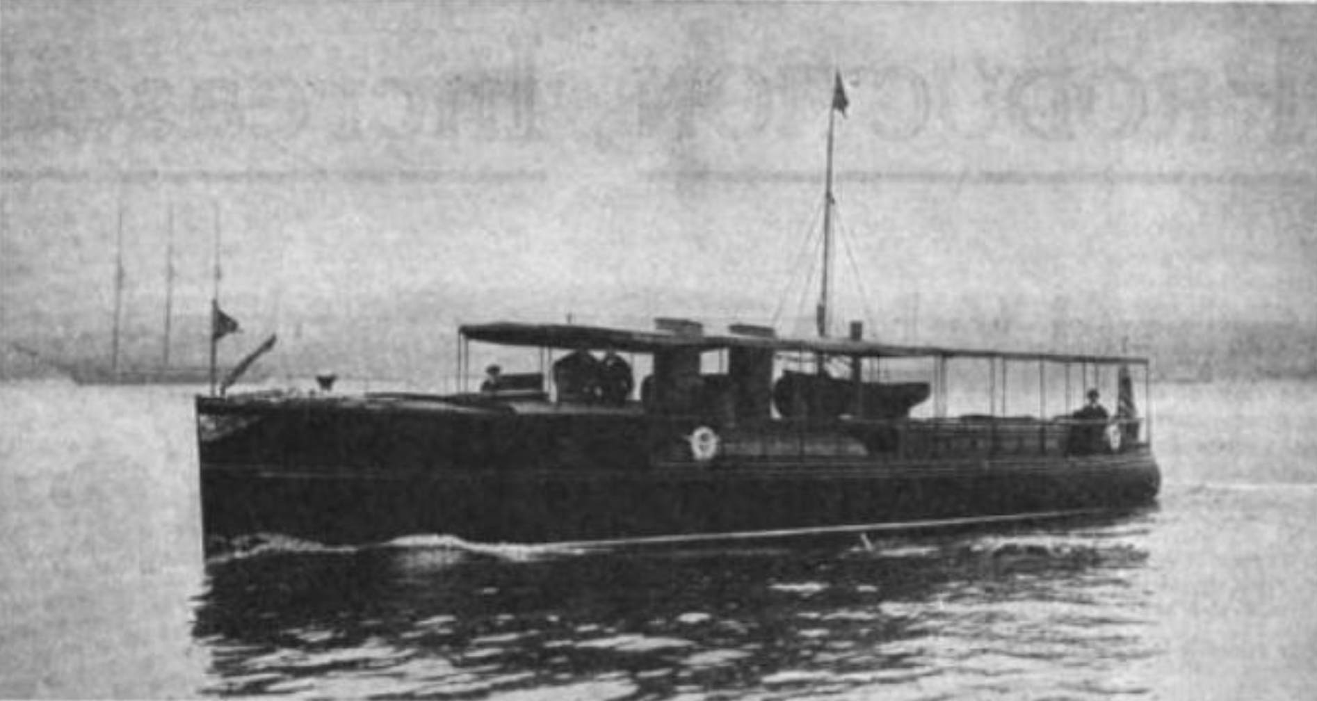 E.F. Hutton's motor yacht Lady Baltimore